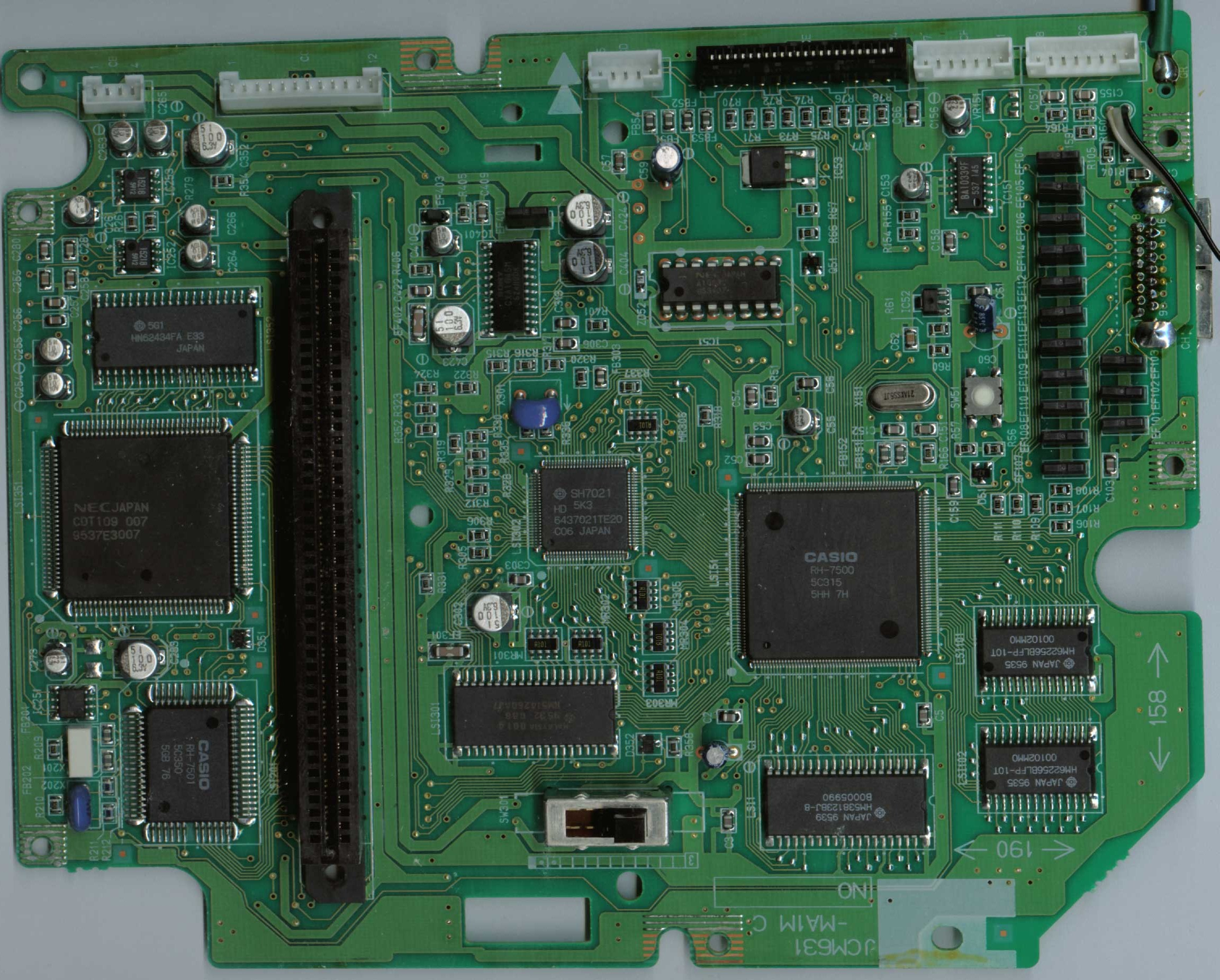 Casio Loopy PCB scan.